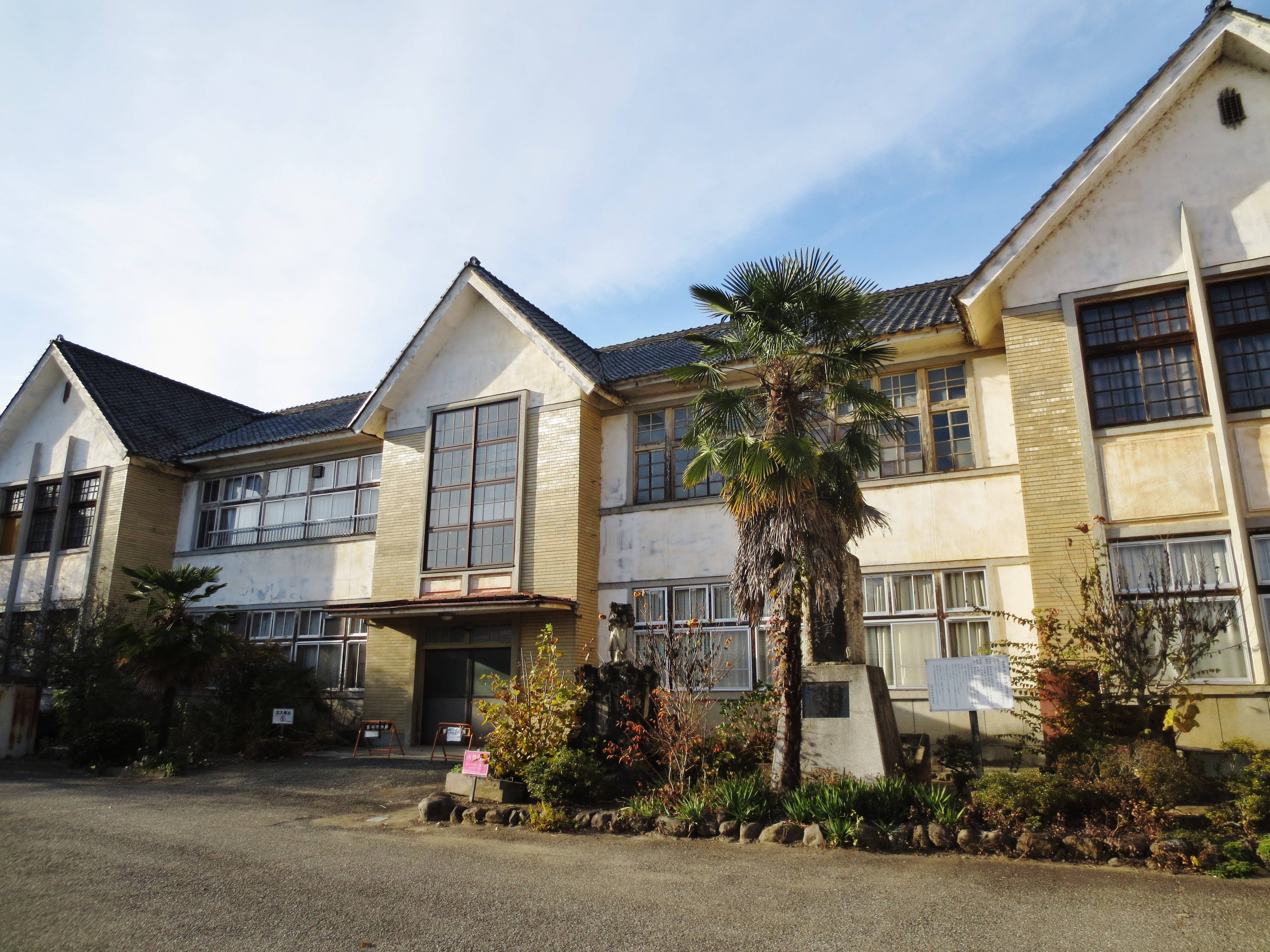 Annaka city museum (Former Akima elementary school).